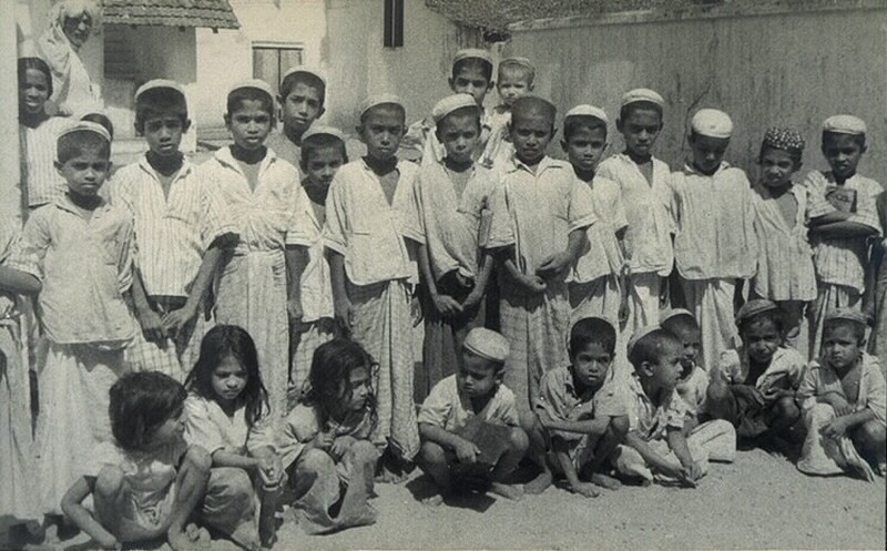 "Juifs noirs" of Cochin, India